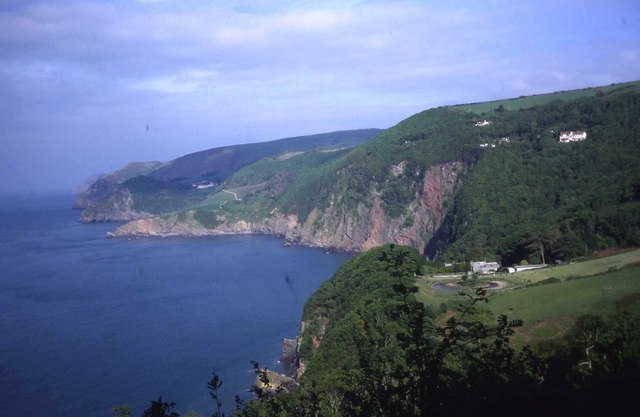 North Devon coast at Woody Bay In the foreground Martinhoe Manor sits in a clearing in the woods. In the background are The Valley of the Rocks and Foreland Point.